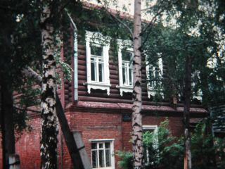 A traditional house in Irkutsk (personal photograph)